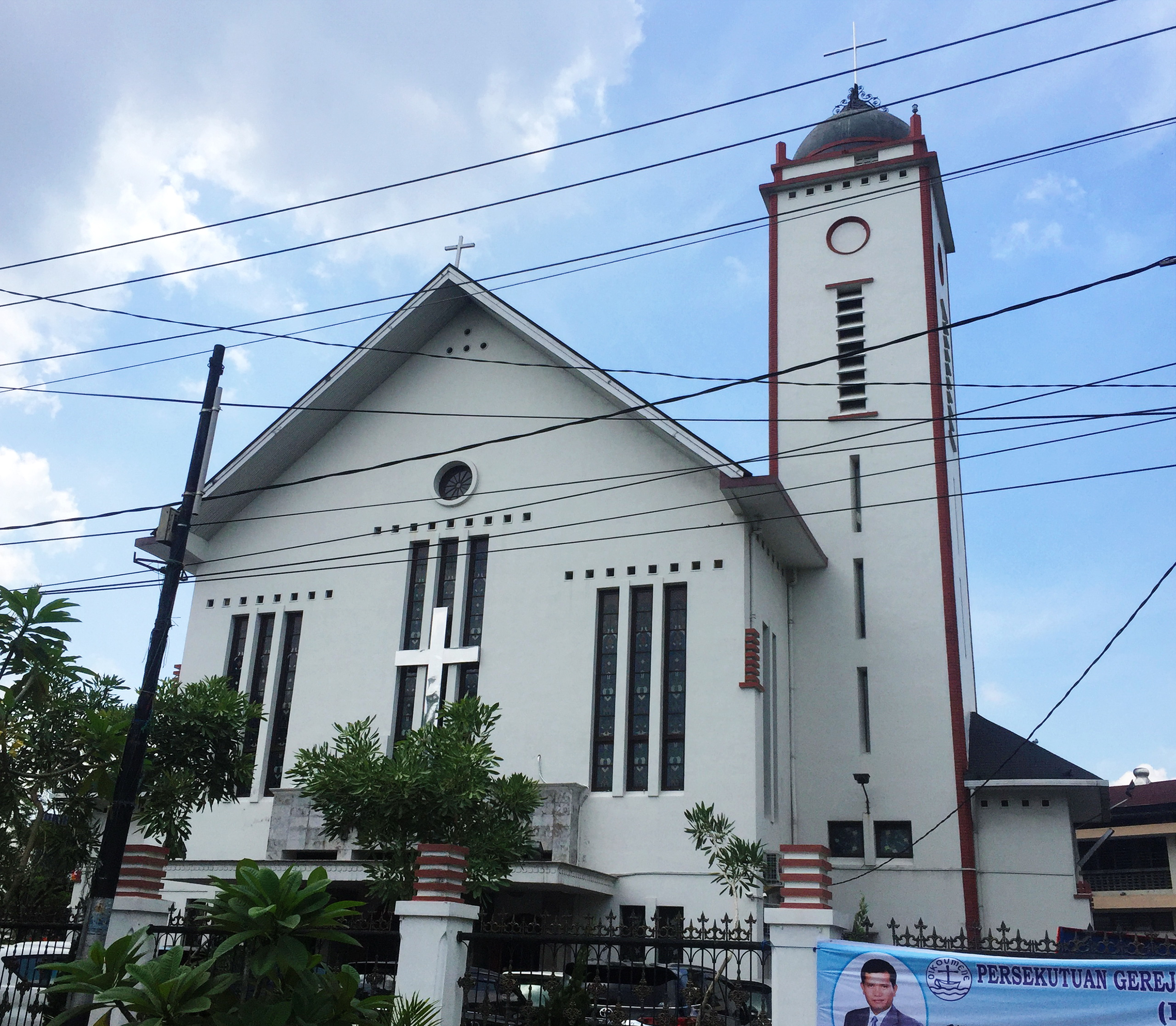 HKBP Jl. Jend. Sudirman, church in Jati, Medan Maimun, Medan